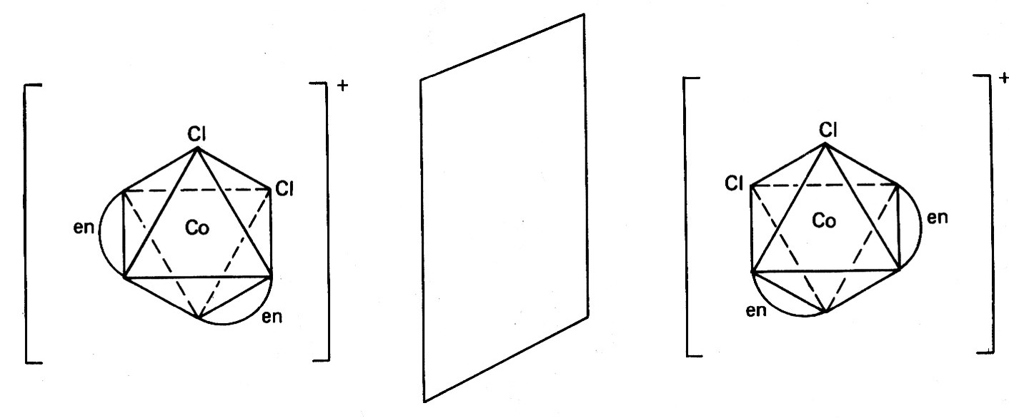 Enantiomers of [CoCl2(en)2]+